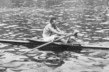 Everard Butler at the 1912 Olympics in Stokholm